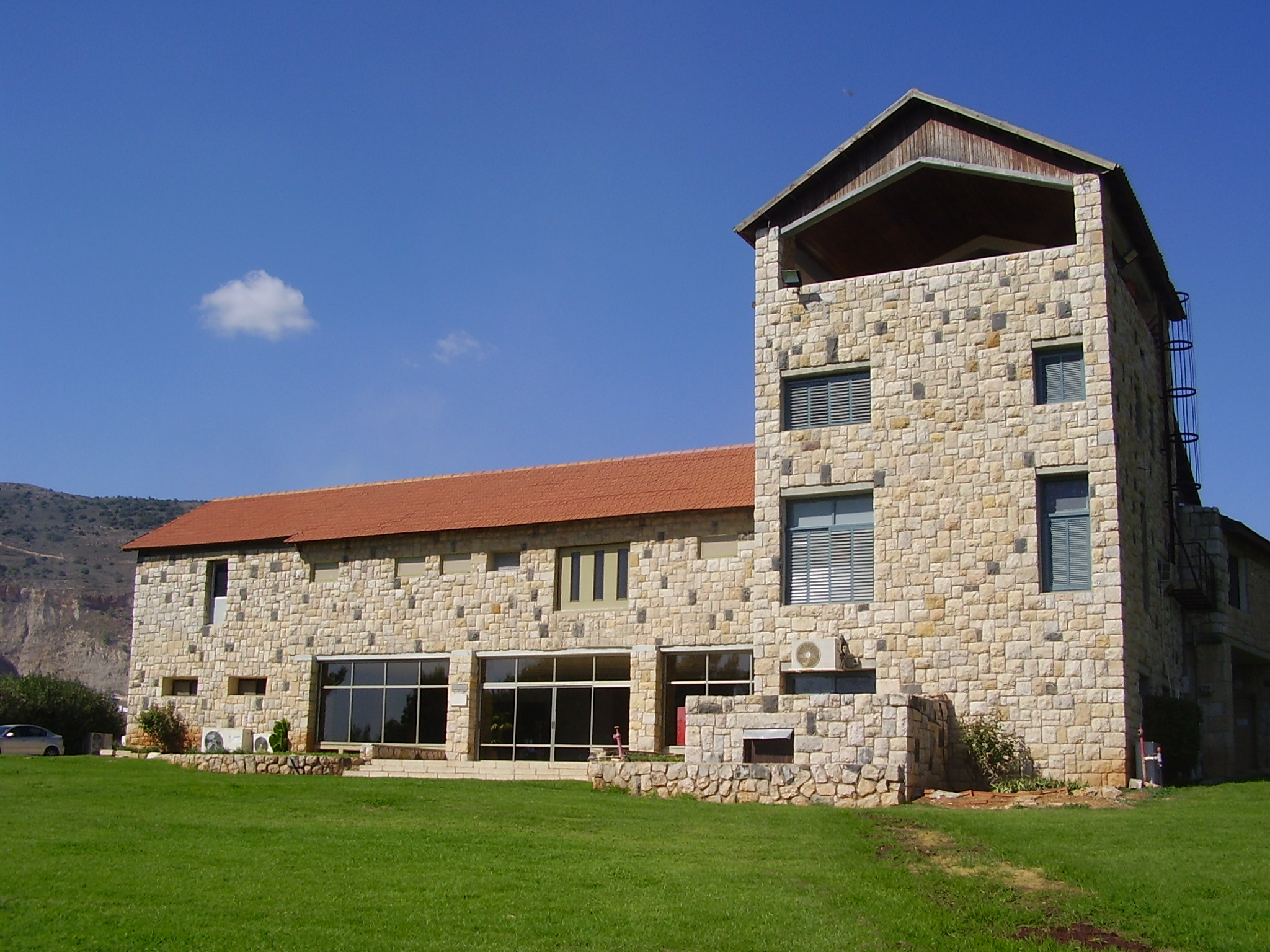 "Hashomer" museum in Kibbutz Kfar Giladi